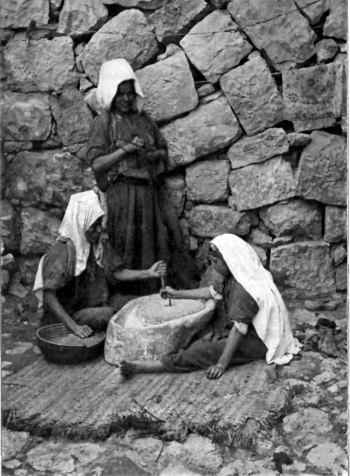 Arab - Palestinian Women_grinding 1912